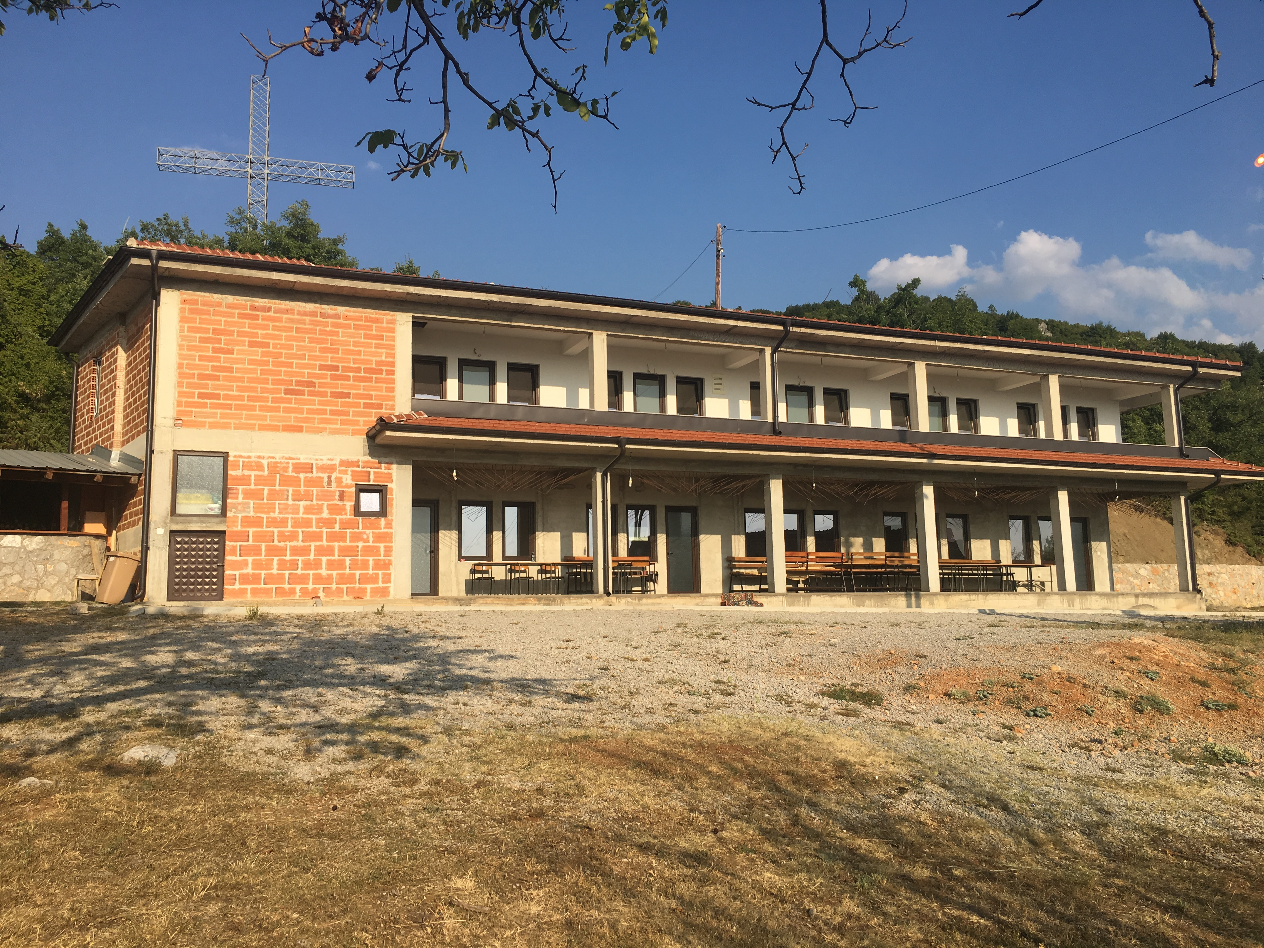 Konak in Leskoec Monastery's yard